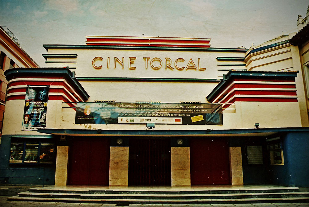 Façade of the building Cine Torcal in Antequera (Spain). According to the uploader (at Commons:Deletion requests/File:Cine Torcal. Antequera - mnemorino.jpg), the image was taken with a film camera (Canon Ae-1) and treated later to give it an aged aspect.